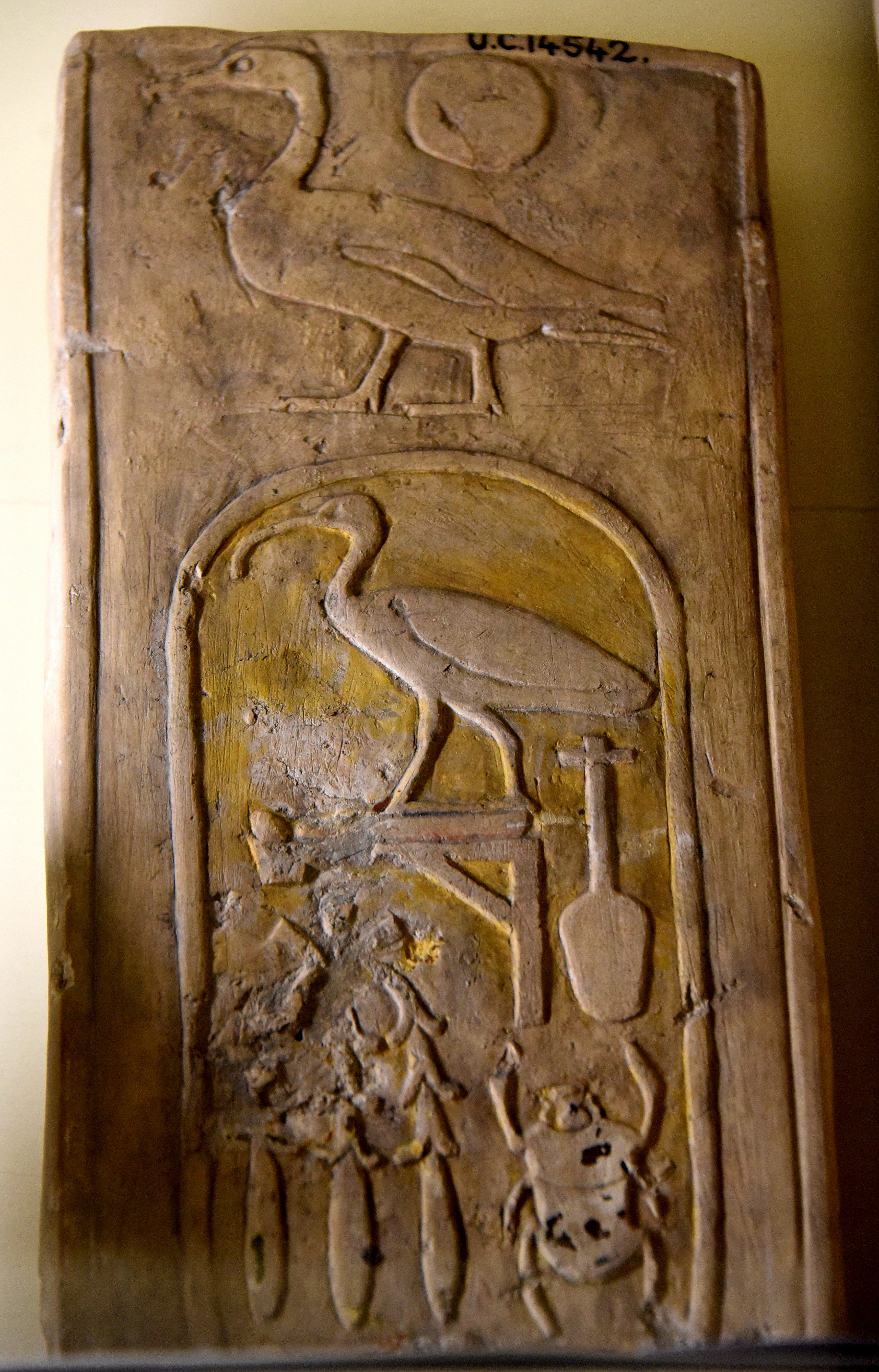 A fragment of a wall block. The hieroglyphs "Son of Ra" were inscribed over the cartouche of the birth-name of Thutmos III and the epithet "Beautiful of Form". The original yellow, red, and black colors within the cartouche can be seen. Limestone, 18th Dynasty. From Egypt. The Petrie Museum of Egyptian Archaeology, London. With thanks to the Petrie Museum of Egyptian Archaeology, UCL.